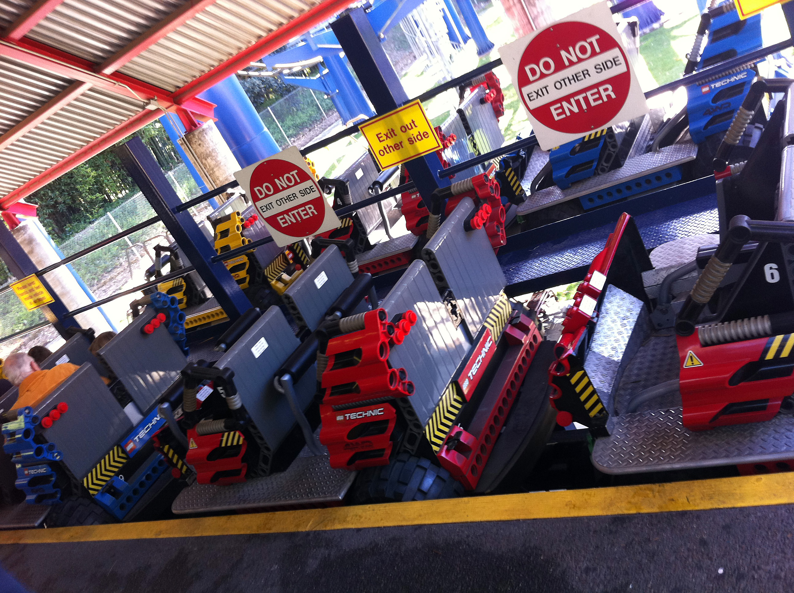 Technic Coaster